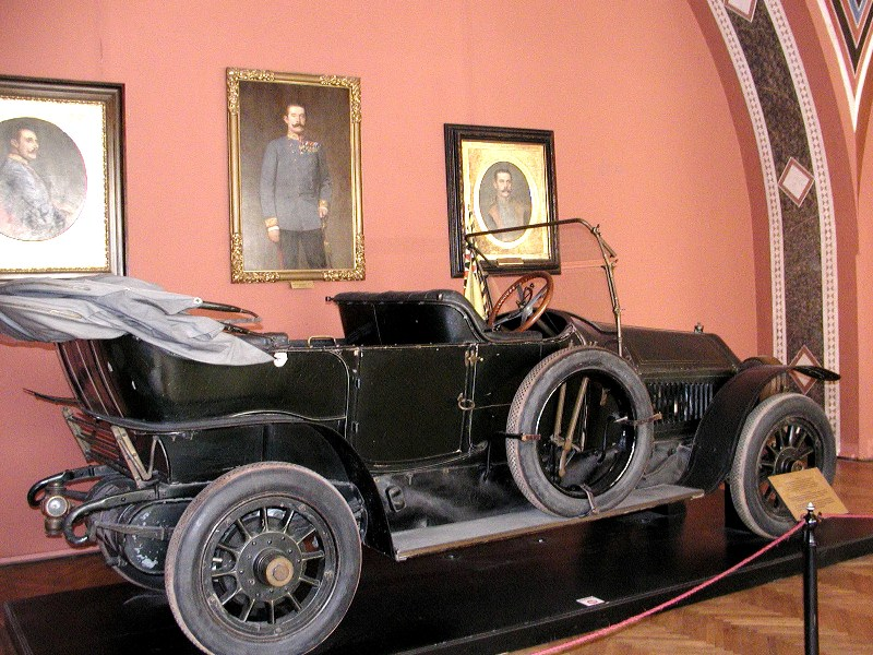 1911 Gräf & Stift open car in which Archduke Ferdinand was killed by Gavrilo Princip, triggering World War I. Picture taken at the Military History Museum in Vienna, Austria.